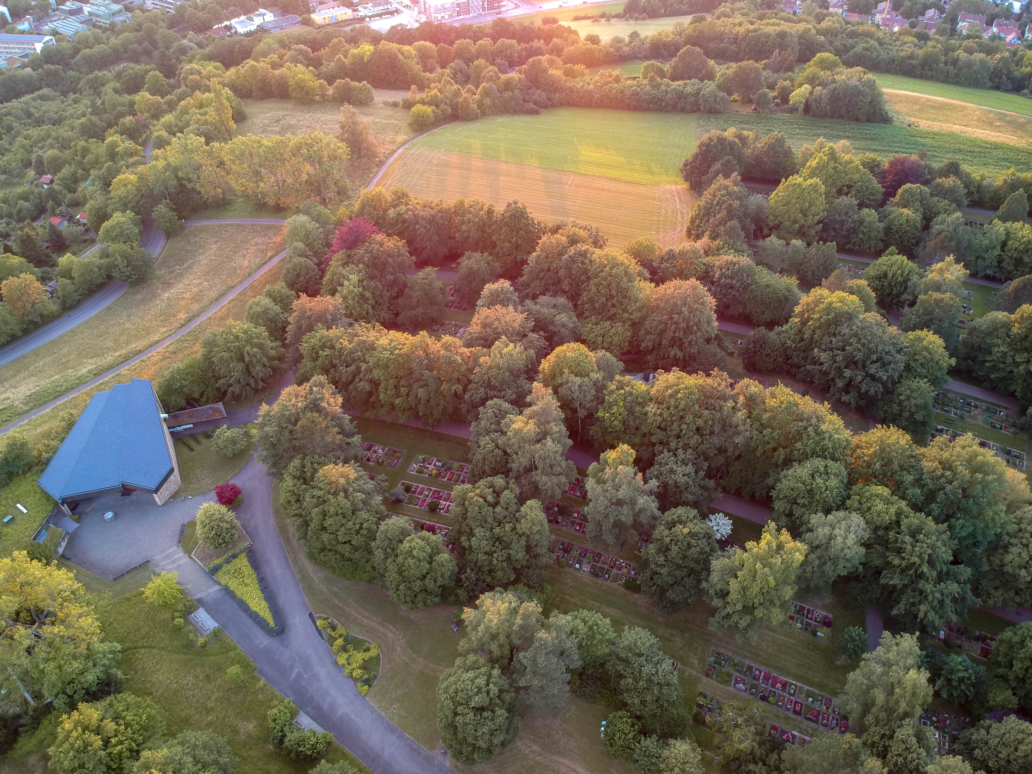 Bergfriedhof in Tübingen